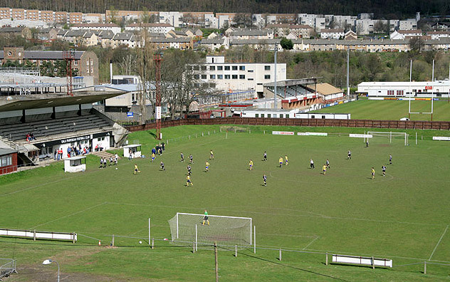 Gala Fairydean Football ground Viewed on a Sunday and most likely to be a youths game. Gala Rugby Football ground is next door and the housing in the background is at Langlee. The football ground is bisected by a grid line over the width of the pitch.